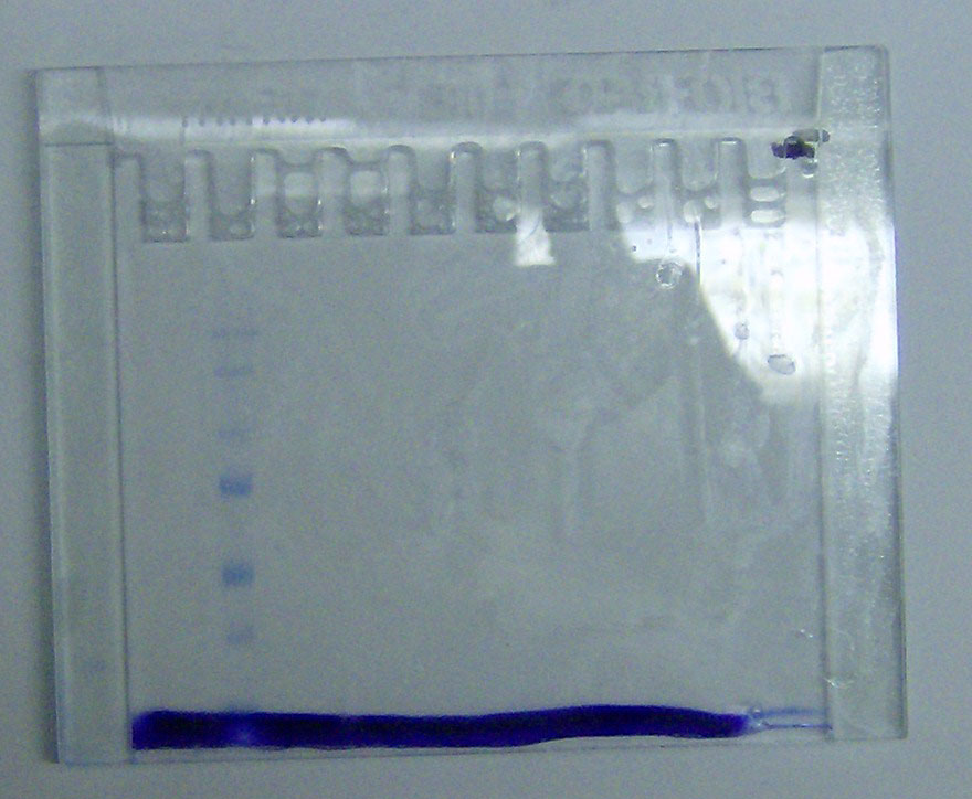 Acril amid gel after electrophoresis